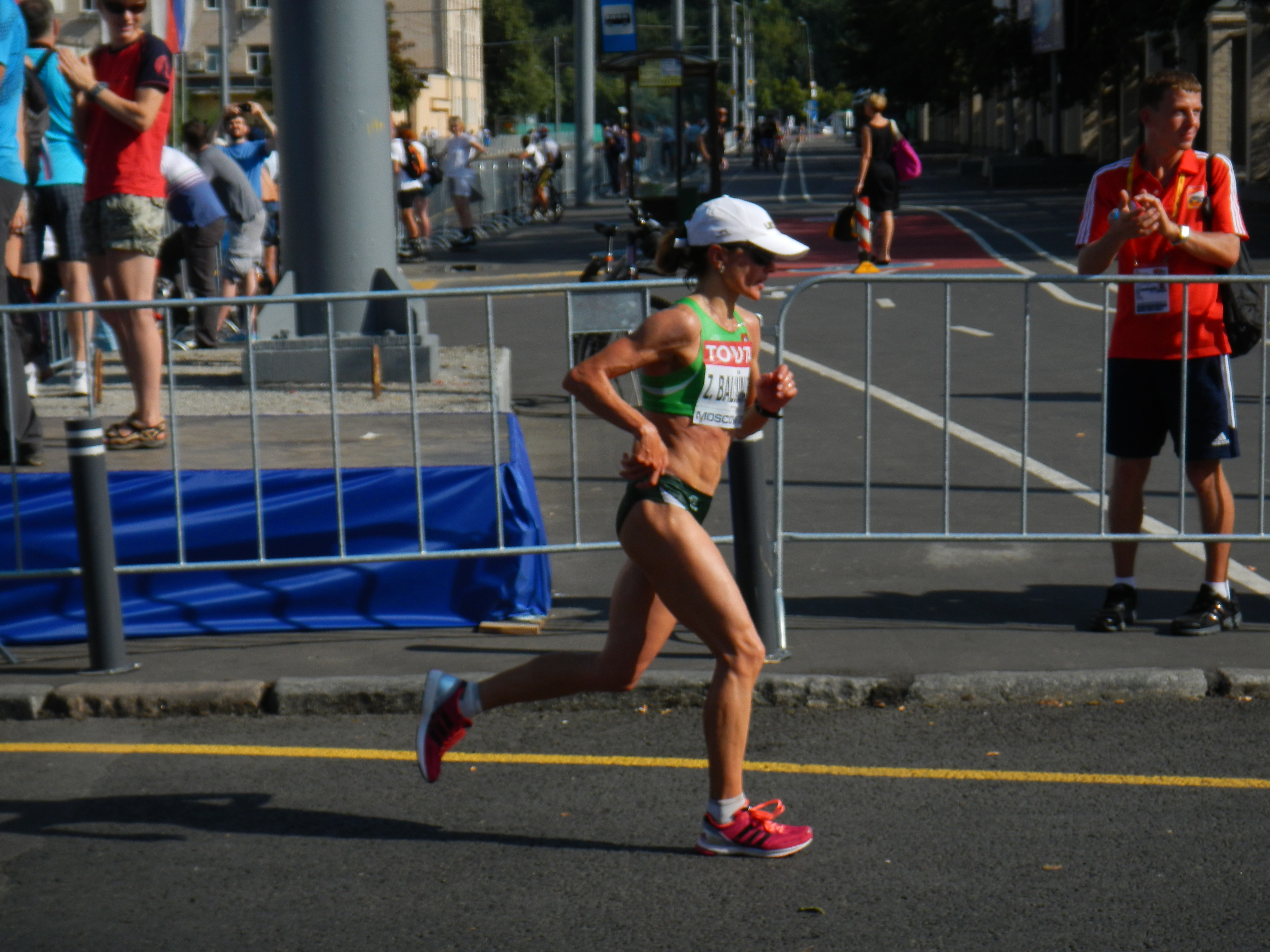 Živilė Balčiūnaitė during 2013 World Championships in Athletics – Women's Marathon